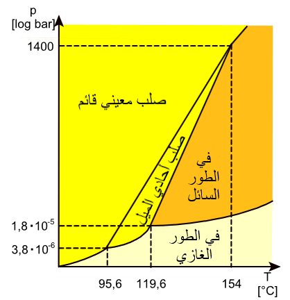 Phase Diagramm of Sulfur